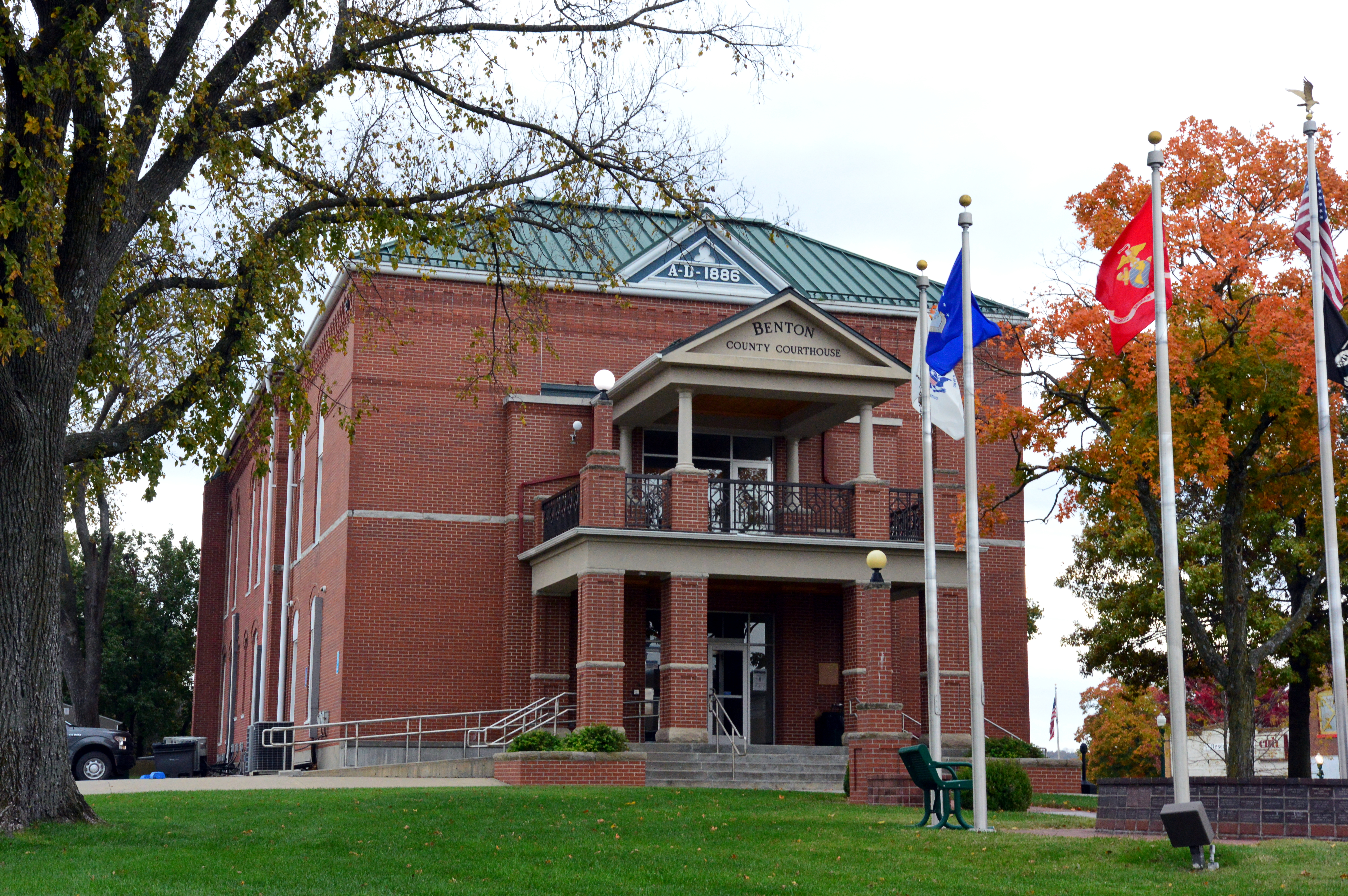 Benton County, courthouse in Warsaw, Missouri, built in 1886